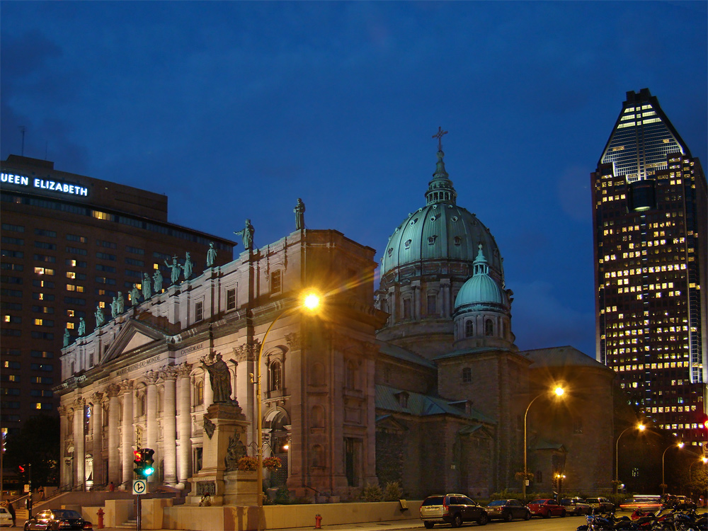 Cathedral-Basilica Mary Queen of the World, Montreal, Quebec, Canada. On the left, The Queen Elizabeth hotel. On the right, the 1000 De La Gauchetière office tower.